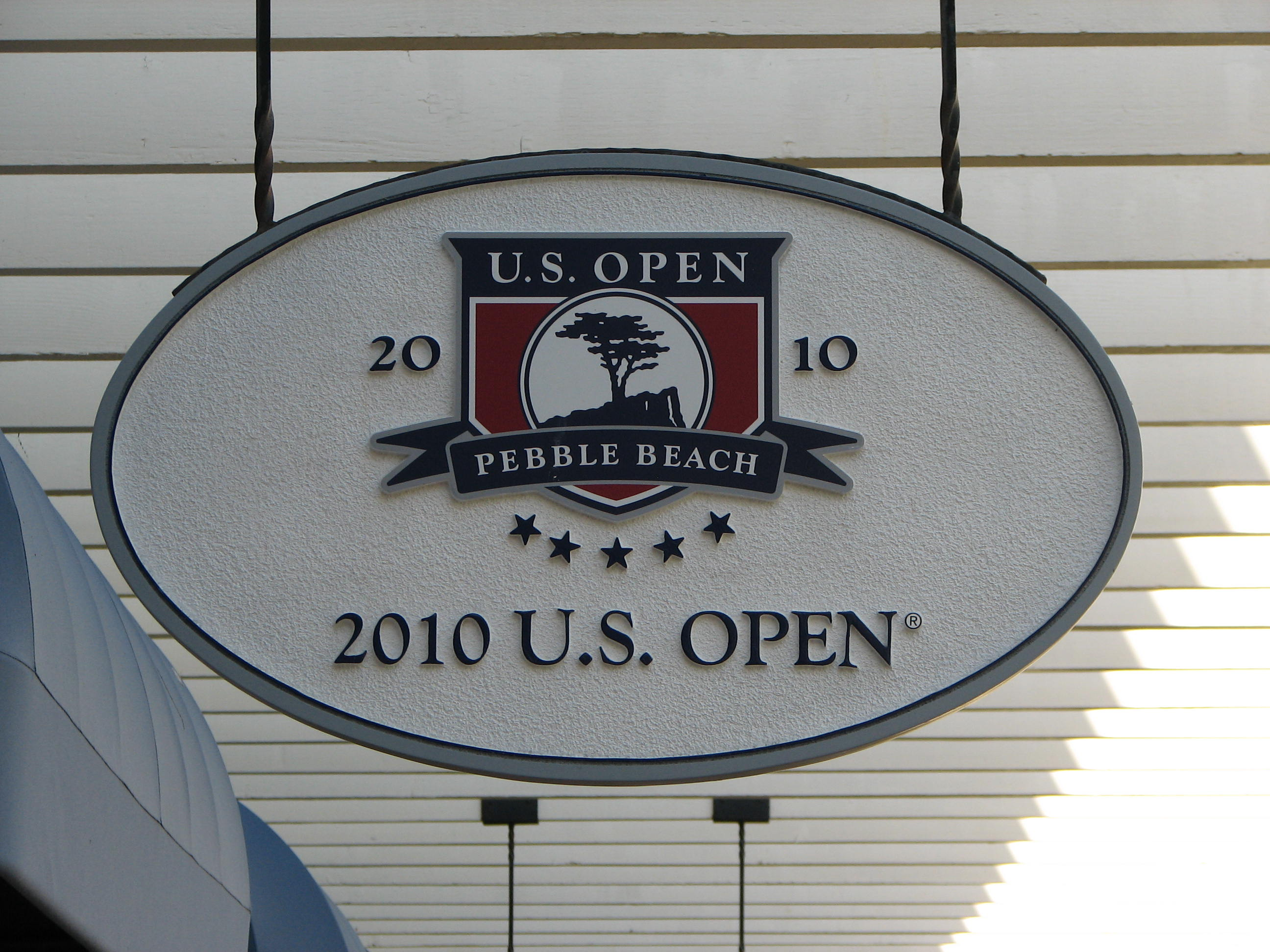 U.S. Open 2010 at Pebble Beach Golf Links, California, USA